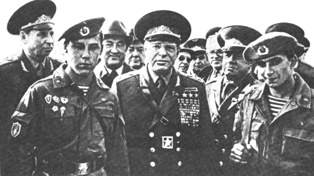 Left to Right: Marshalls Nikolay Ogarkov, Dmitry Ustinov, and Alexey Yepishev pose with airborne troopers during exercise ZAPAD-81.